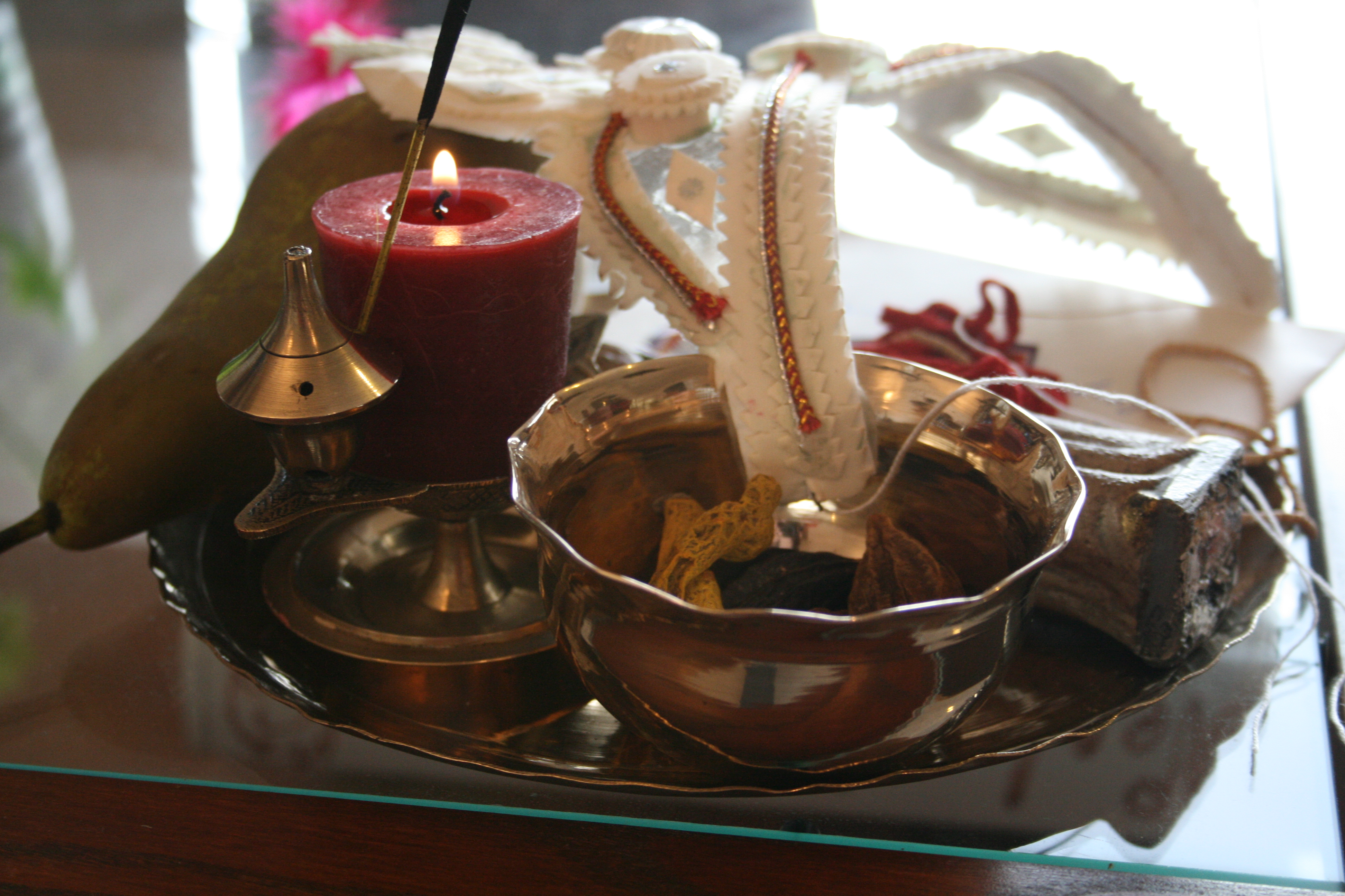 Annaprashan is a Hindu rite-of-passage ritual that marks an infant's first intake of food other than milk. The term annaprashan literally means "food feeding" or "eating of food". wikipedia